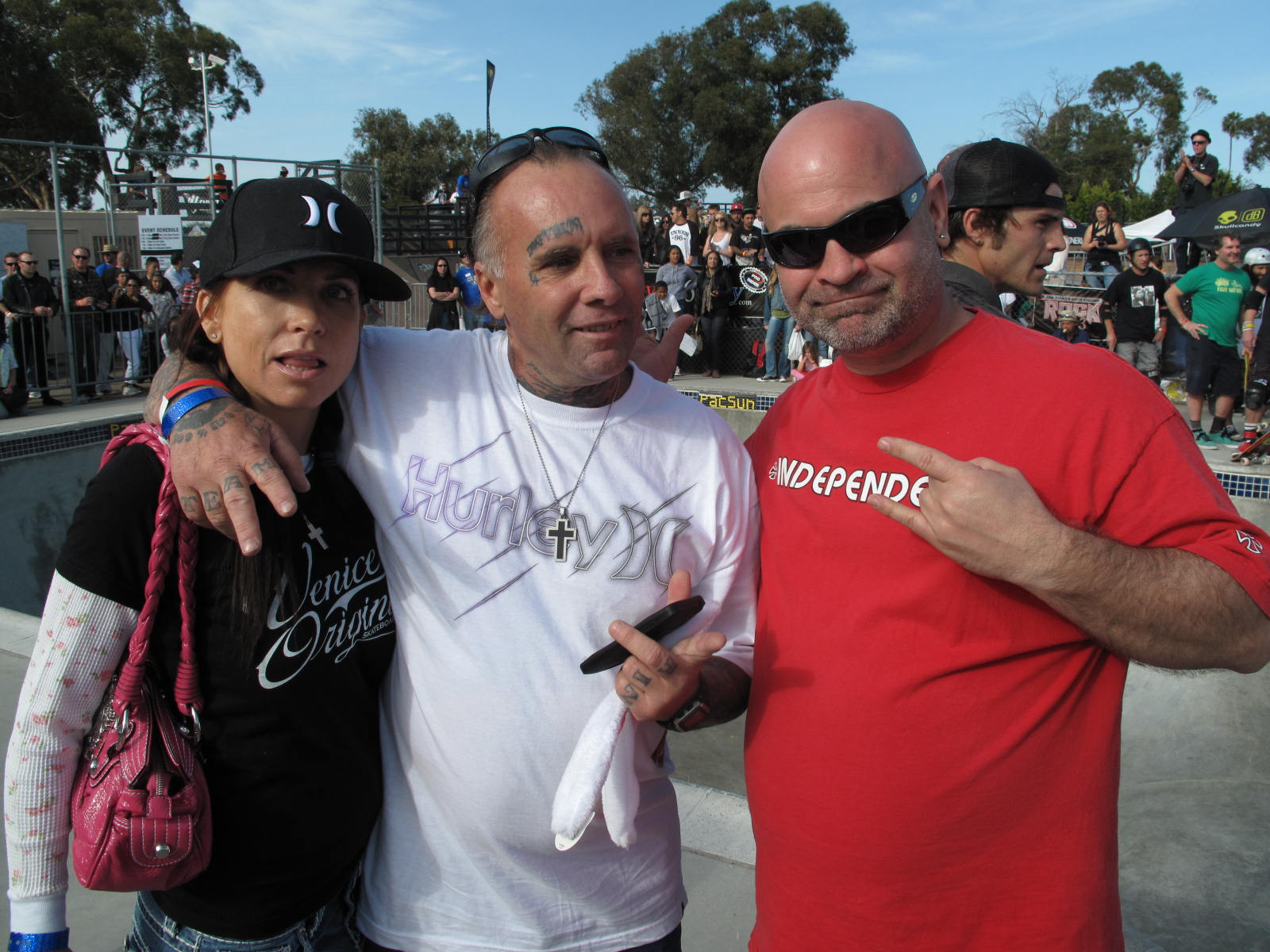 Jay Adams in 2011